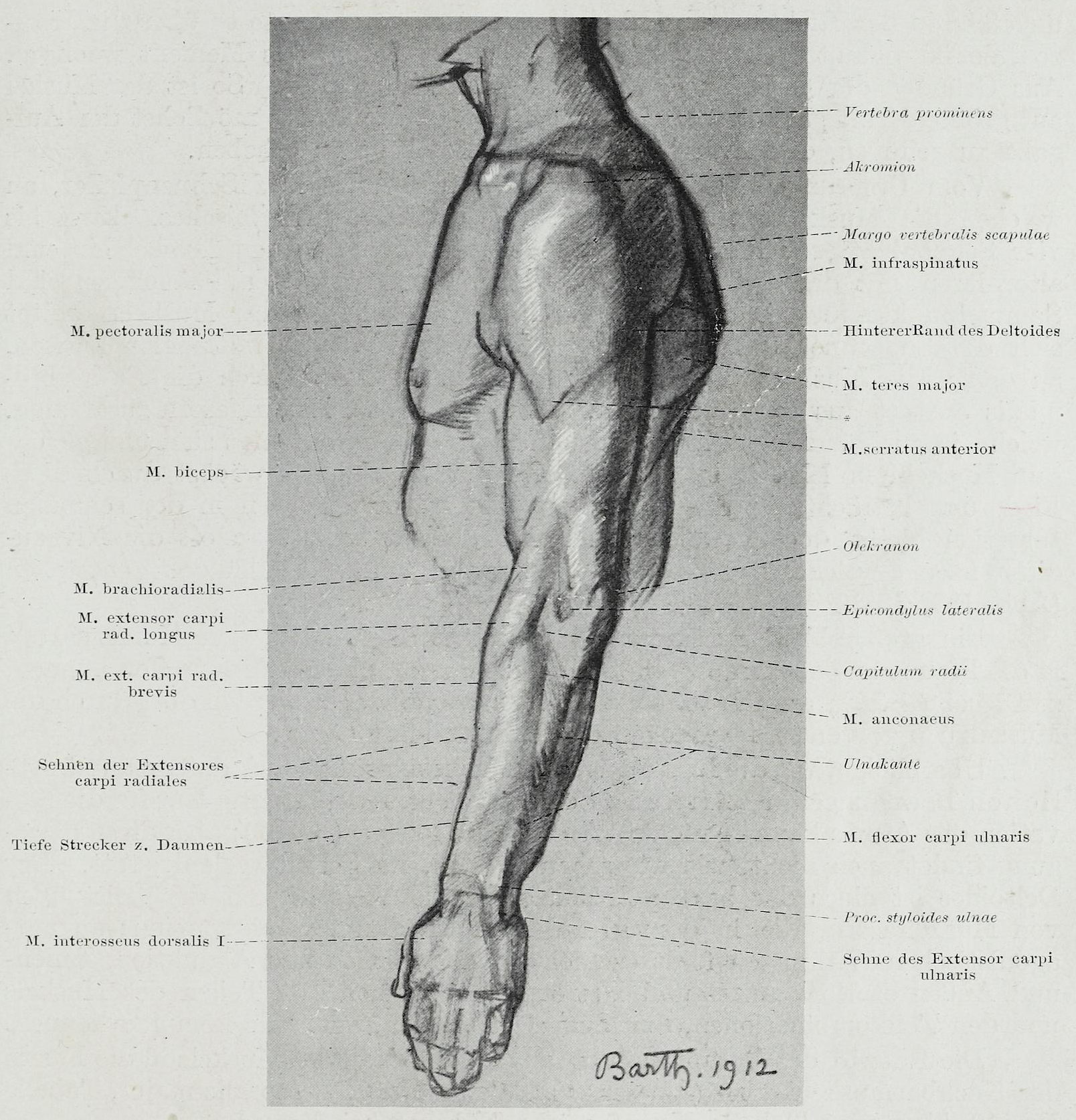 An anatomical illustration from the 1921 German edition of Anatomie des Menschen: ein Lehrbuch für Studierende und Ärzte with latin terminology.